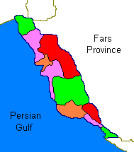 Bushehr Province in Map of of Iran.